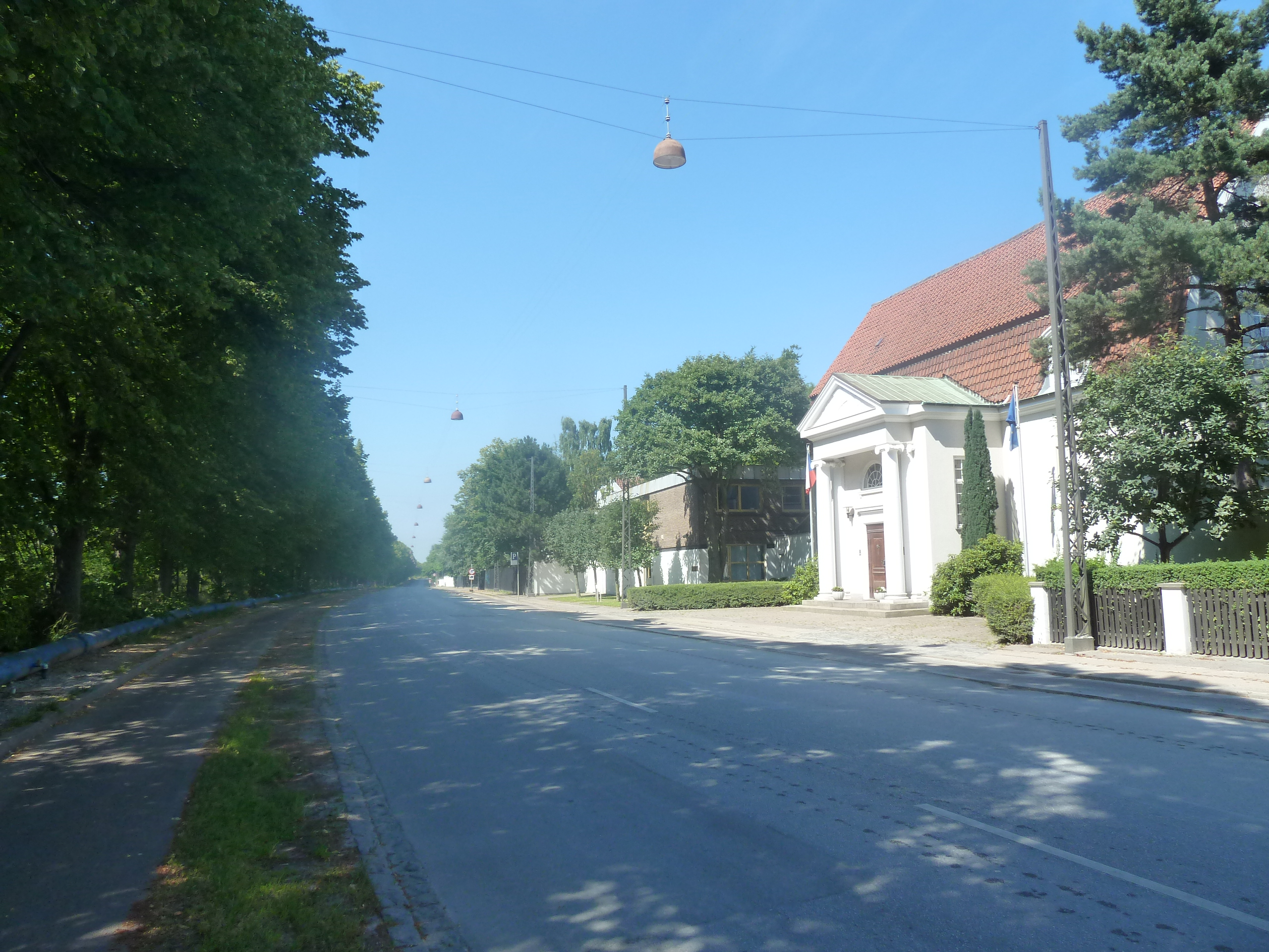 The street Ryvangs Alle in Østerbro in Copenhagen. The Czechian Embassy at the right.